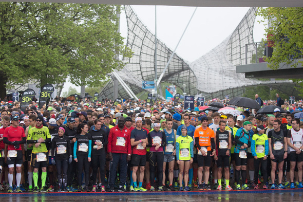 Wing For Life Run Munich